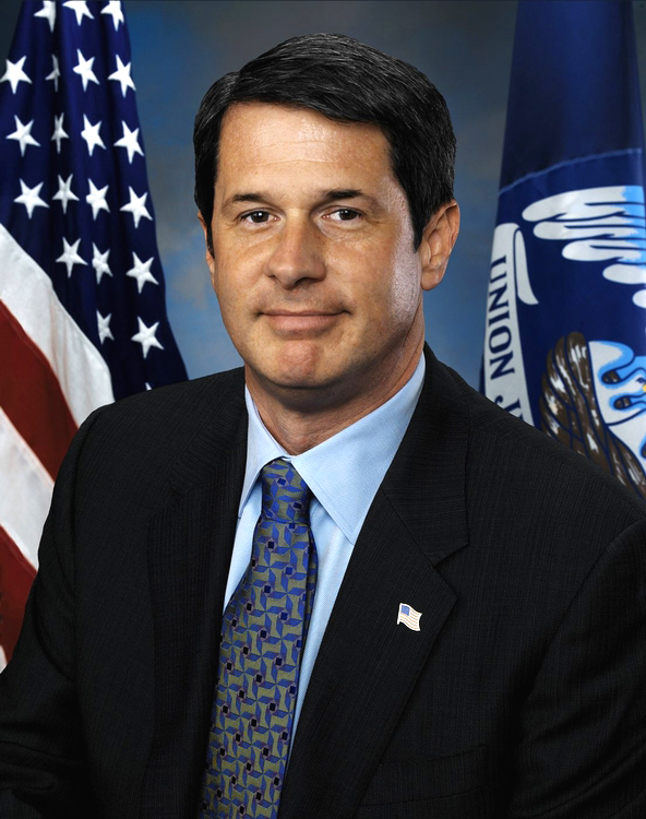 Louisiana Senator David Vitter. An official photograph from his Senate website